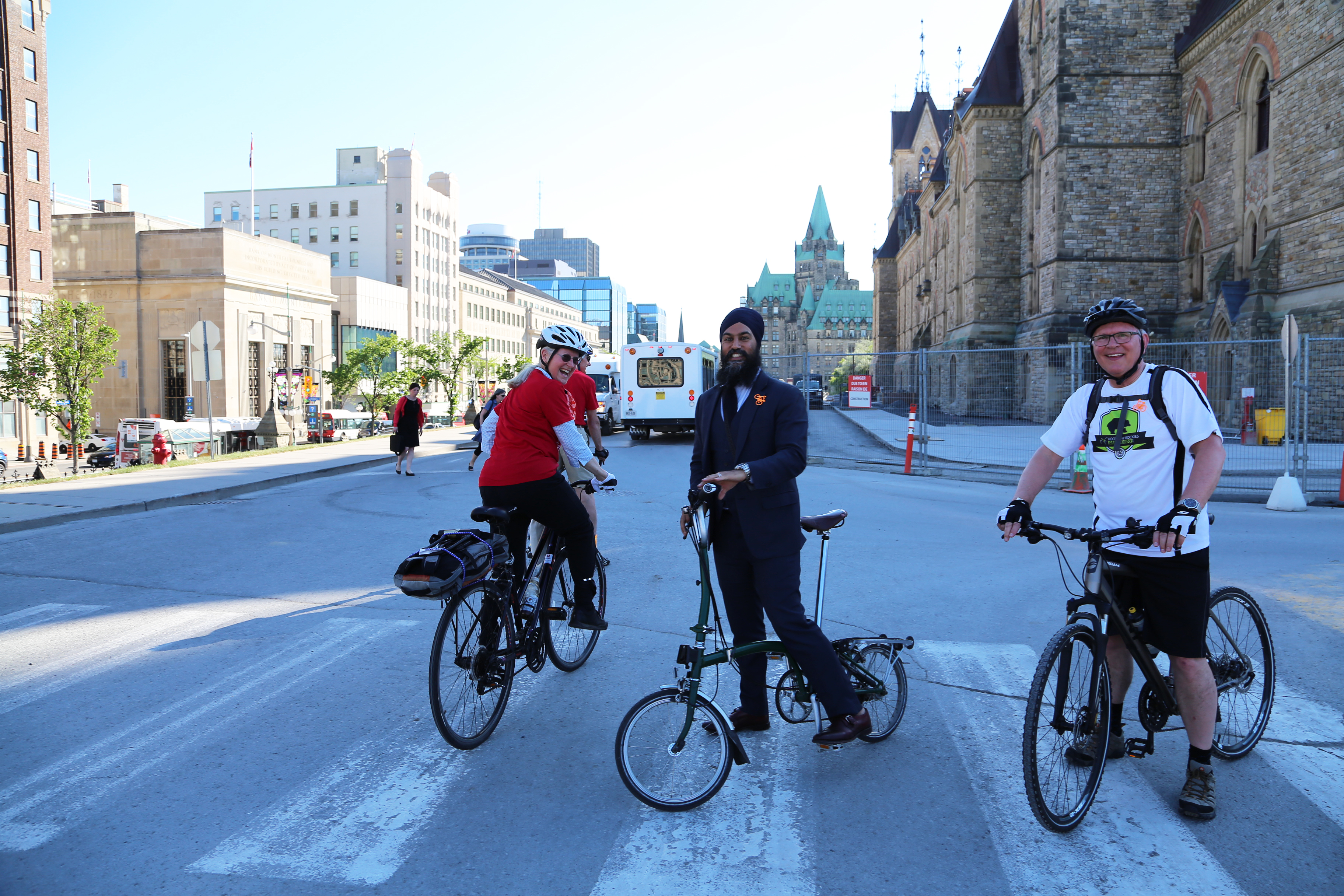 Jagmeet Singh at the 2nd National Bike Summit - Vélo Canada Bikes